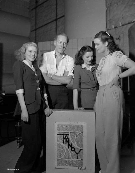 Actor Cyril Ritchard and three young women, presumably from the cast of The Winslow Boy (1948), listen to the Tannoy public address system.